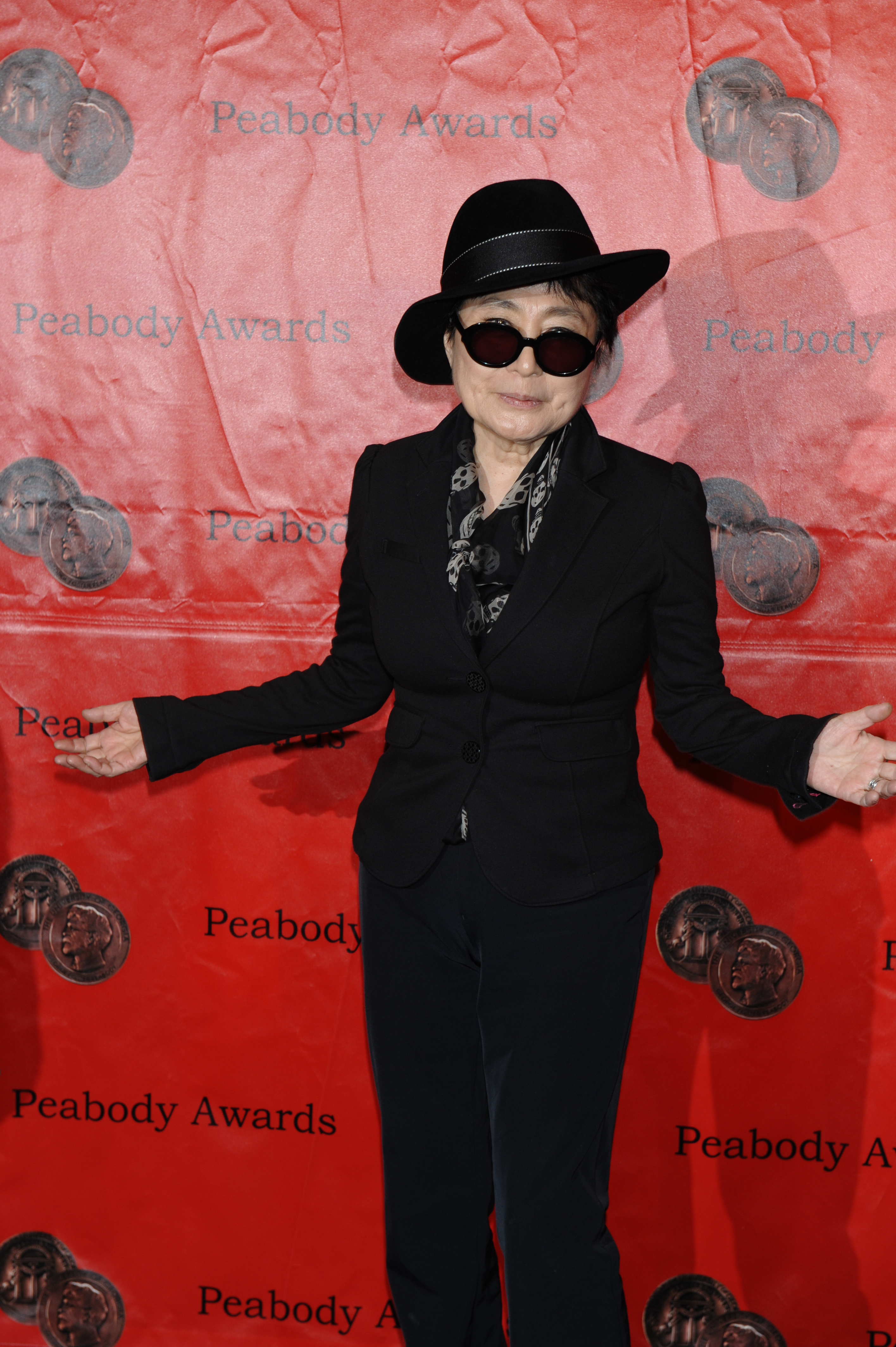 PHOTO CREDIT: ANDERS KRUSBERG / PEABODY AWARDS Yoko Ono at the 70th Annual Peabody Awards for American Masters: LennoNYC 70th Annual Peabody Awards Luncheon Waldorf=Astoria Hotel May 23, 2011